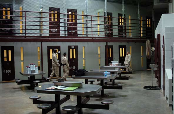 As designed, Camp 5 and Camp 6 were to have communal areas. But, by the time it was complete it was decided the captives were to be held in solitary confinement, and the communal areas were not made available to the captives. Under President Obama captives were allowed to mingle in the areas designed to be communal areas.